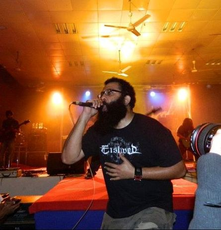 Bhayanak Maut performing during TechXetra 2011